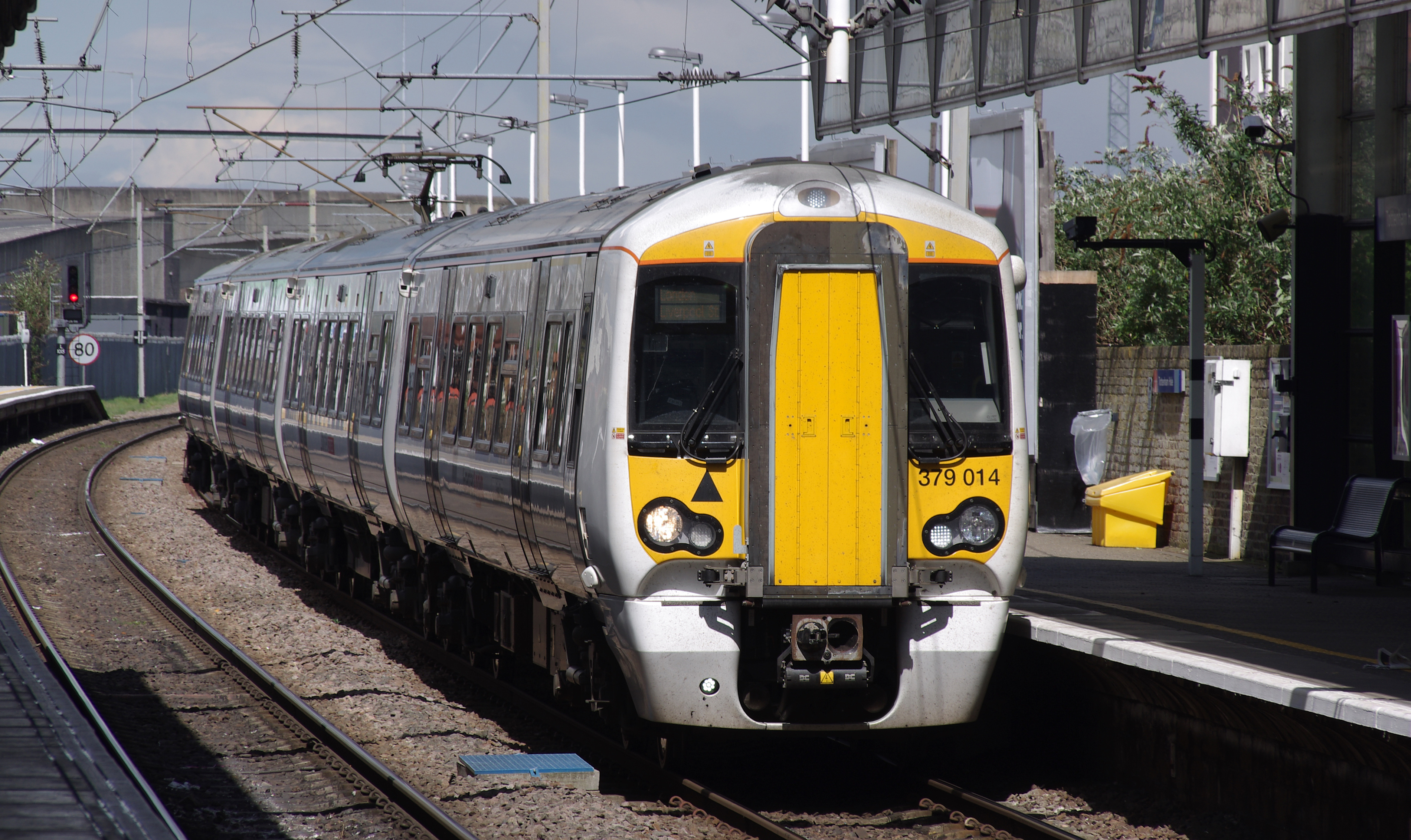 Greater Anglia Class 379 "Electrostar" EMU 379014 arrives at Tottenham Hale with a service to Liverpool Street.